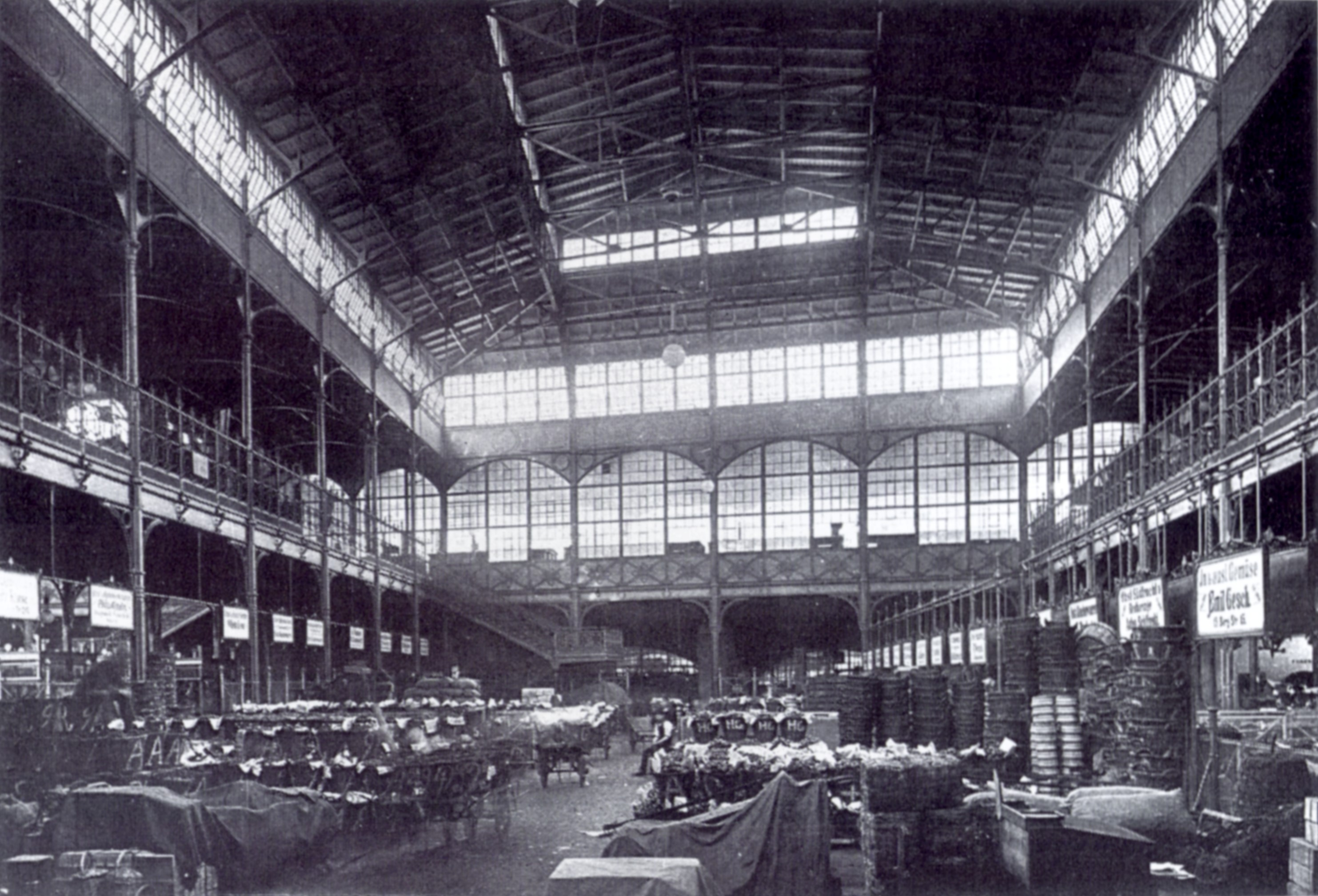 Berlin - interior view central market hall I at Alexanderplatz around 1890